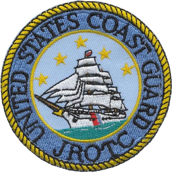 Seal of the United States Coast Guard Junior Reserve Officers' Training Corps